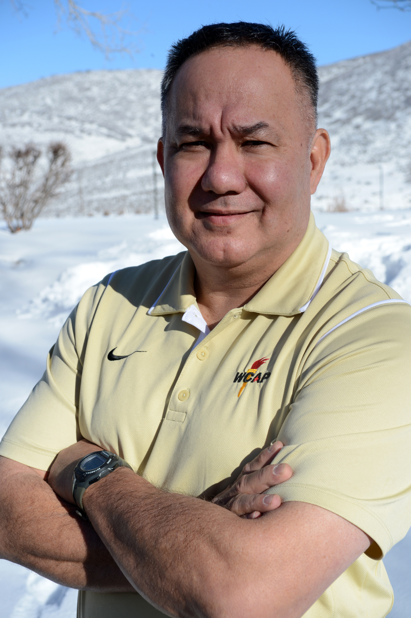 U.S. Army World Class Athlete Program and Olympic luge coach Staff Sgt. Bill Tavares will lead Team USA lugers at the 2014 Olympic Winter Games, scheduled for Feb. 7-23 in Sochi, Russia. U.S. Army photo by Tim Hipps, IMCOM Public Affairs